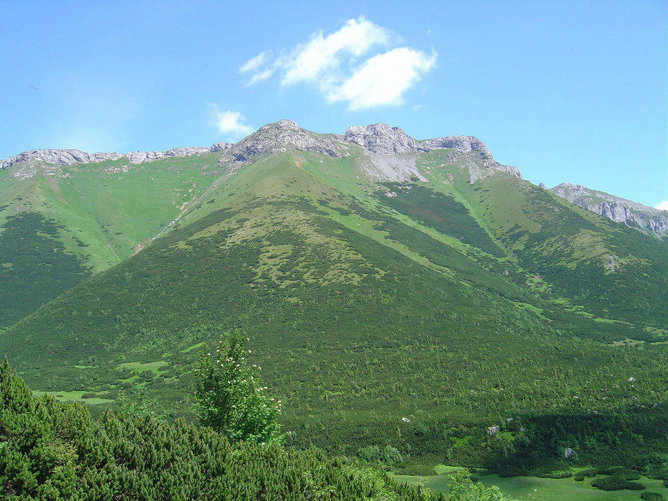 Predne Jatky from wood meadow of Jeruzalem